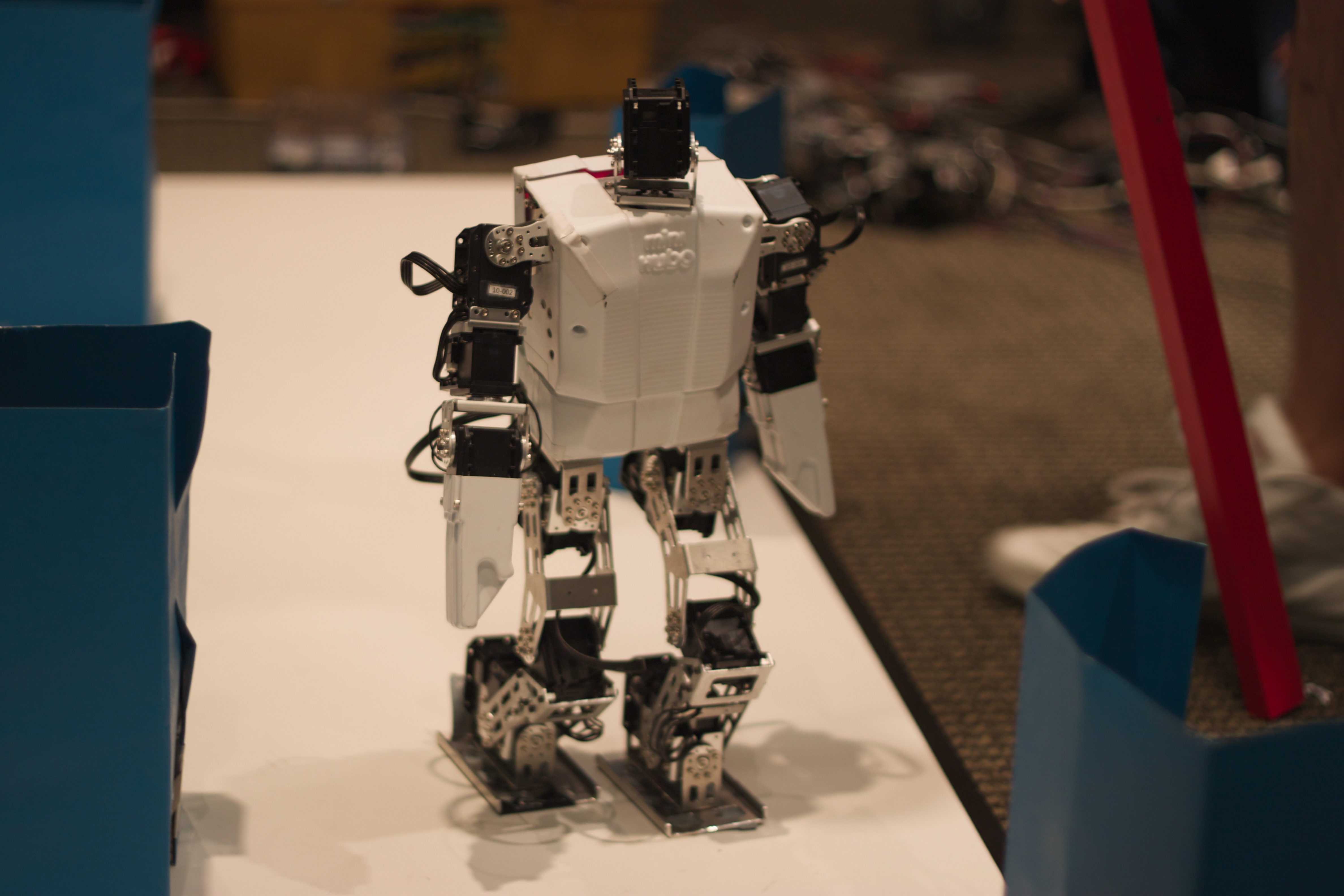 Bioloid humanoid in the Obstacle Challenge at AAAI 2010